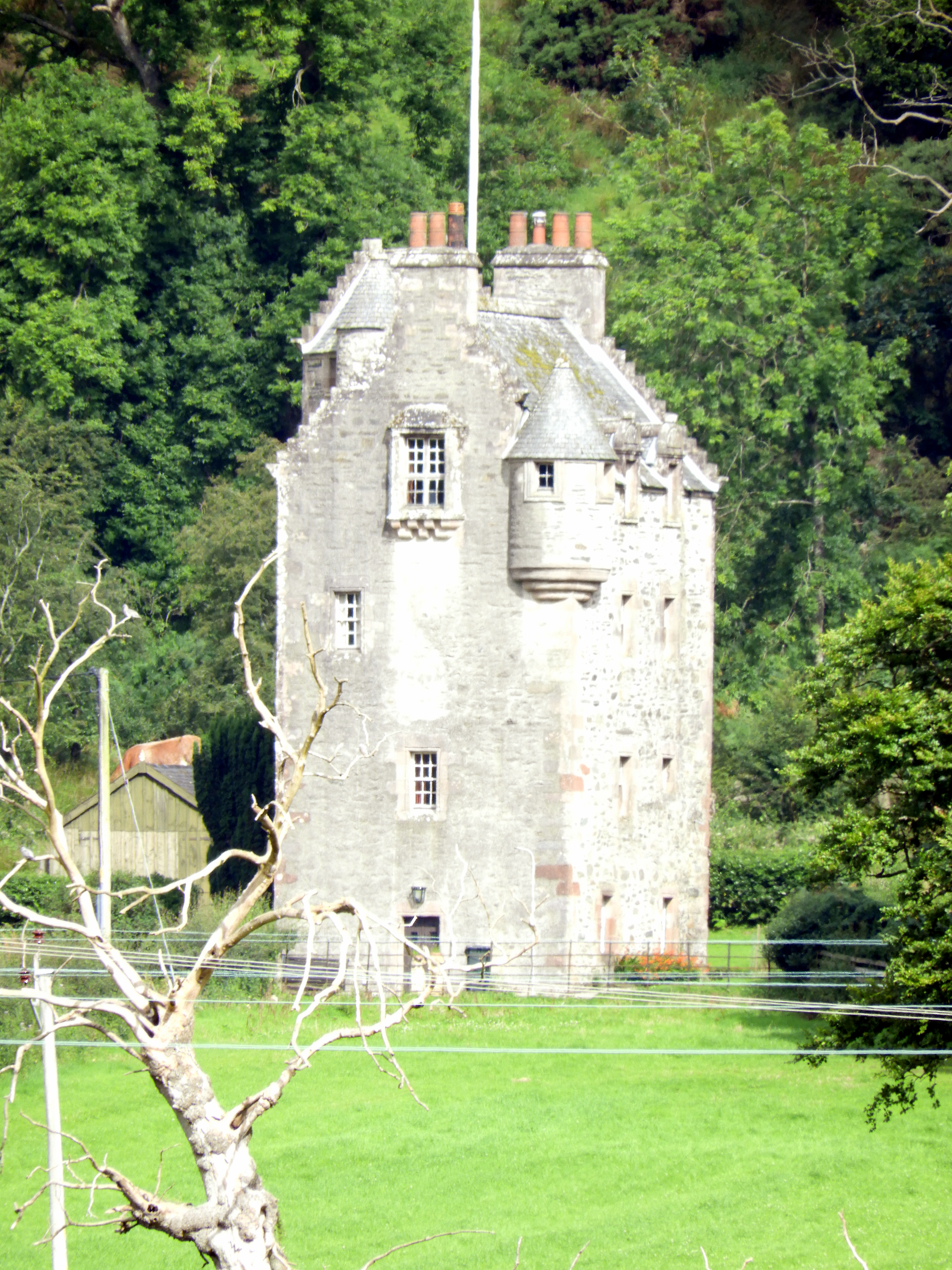 Designed by Robert Weir Schultz, and completed 1897-1900; rebuilding a keep of circa 1700